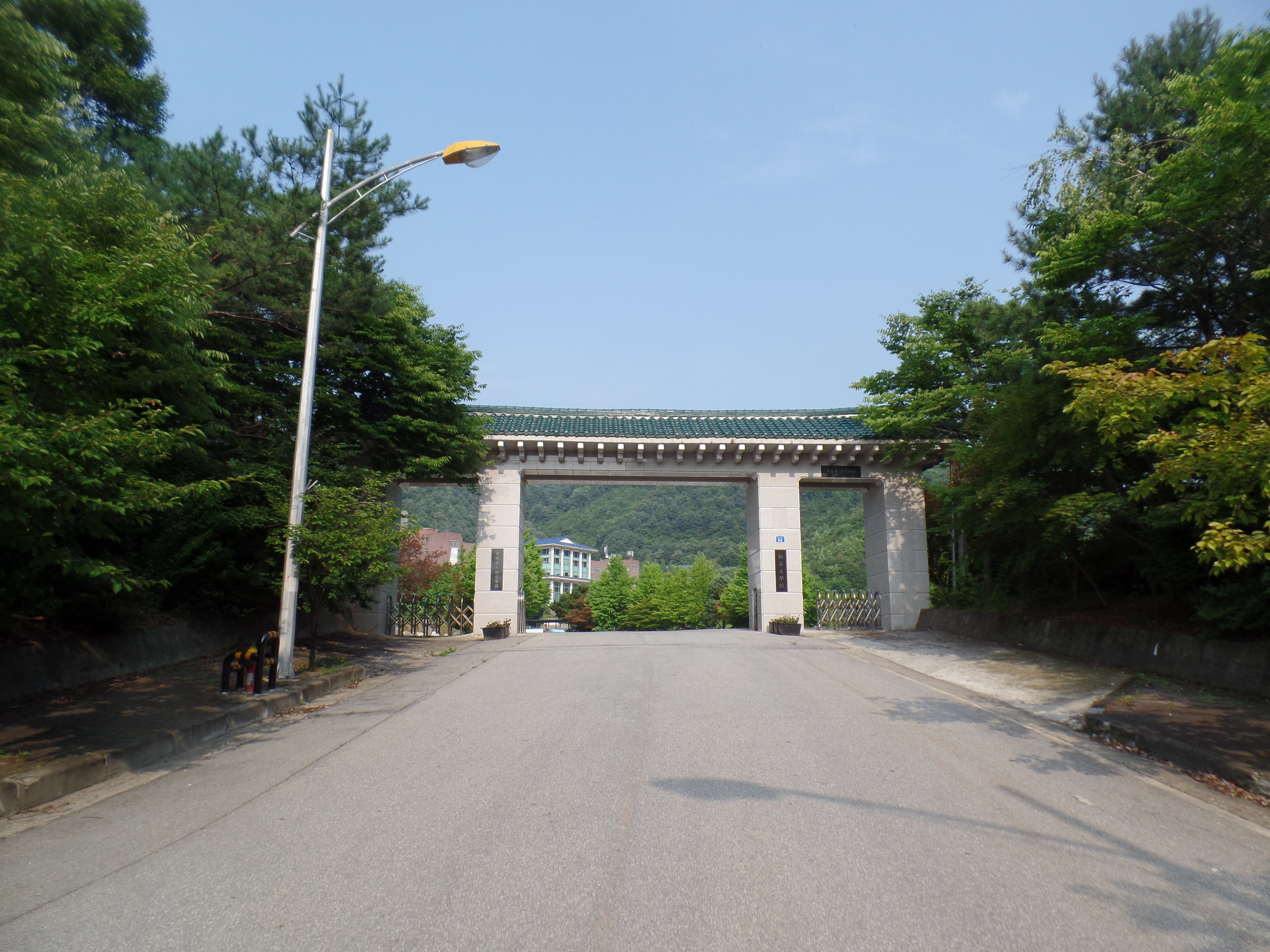 Main gate of Songgok College